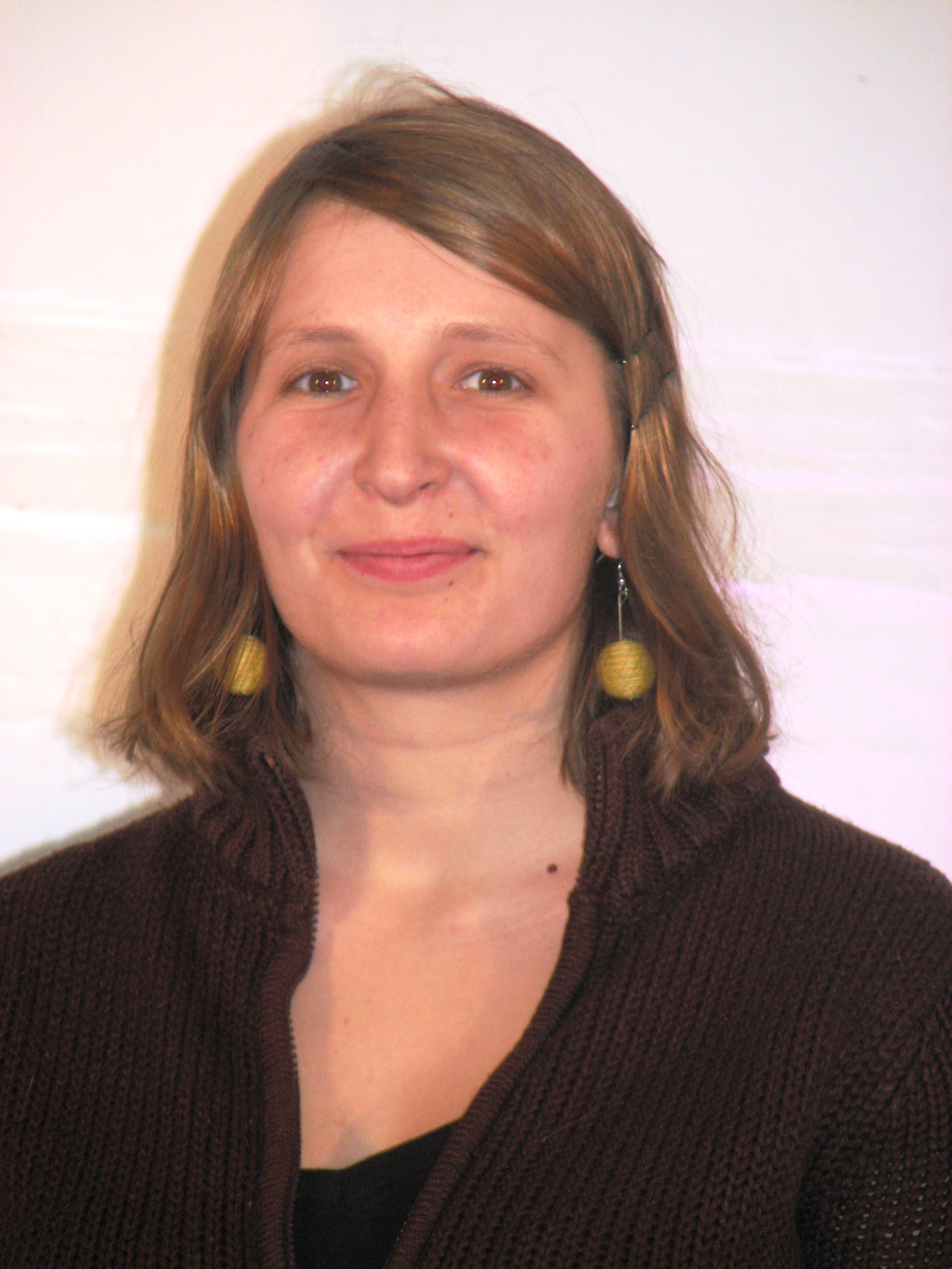 Carolina Pihelgas performing in Tallinn Literary Festival HeadRead 2010